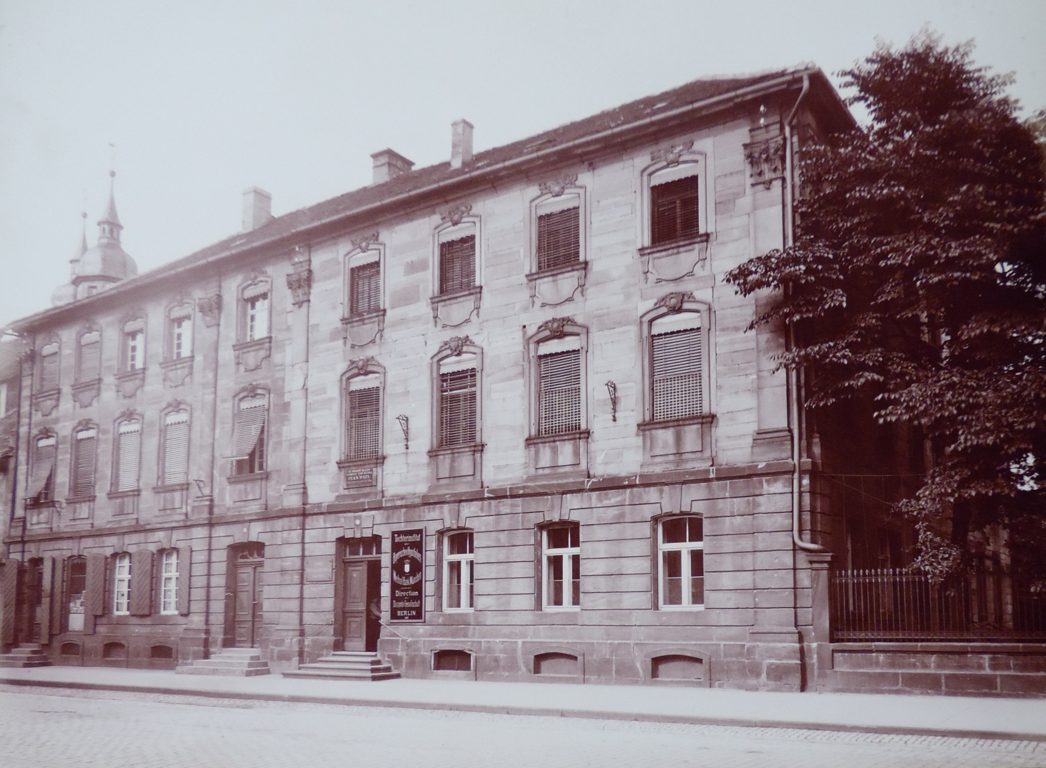 Views and photos of Bayreuth, Germany, gifted to Ferdinand I of Bulgaria to commemorate his 25-year rule. The house where Jean Paul died.